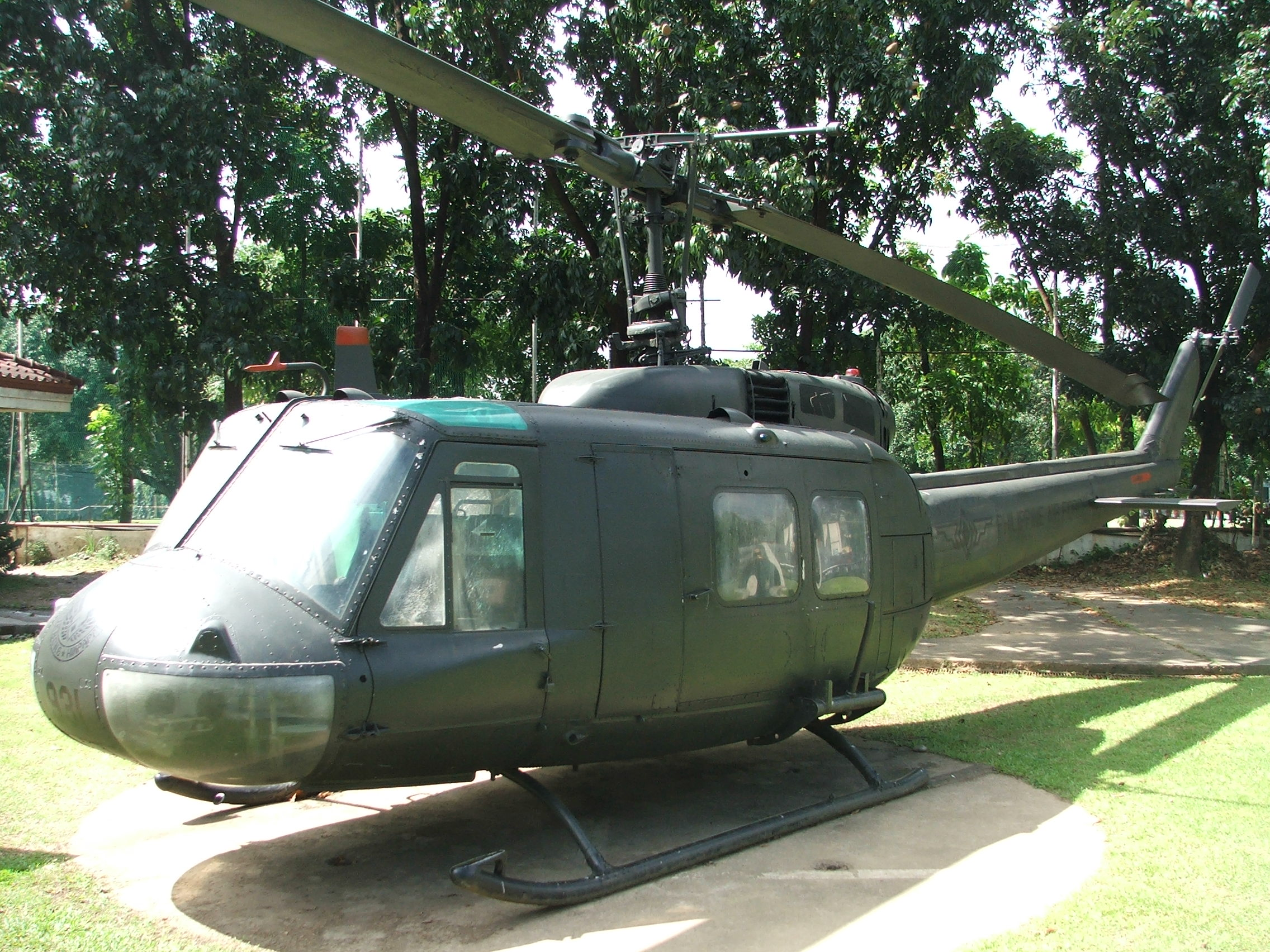 Static display of a UH-1 Huey of the Philippine Air Force from the Armed Forces of the Philippines Museum in Camp Aguinaldo, Quezon City, Philippines.